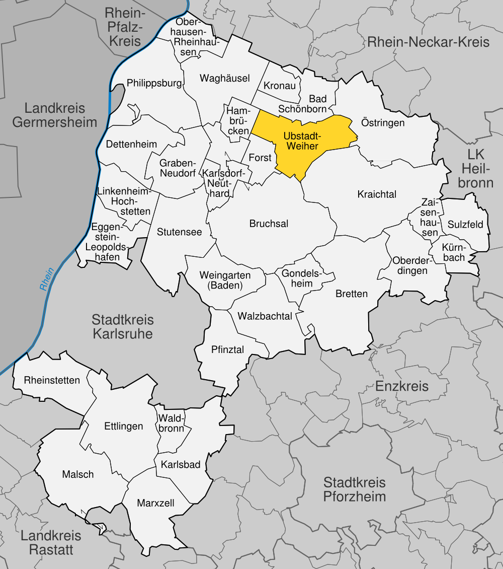 position of Ubstadt-Weiher within distict of Karlsruhe, Baden-Württemberg, Germany